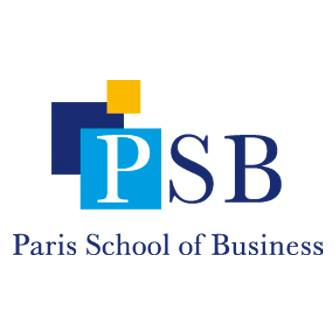 Paris School of Business